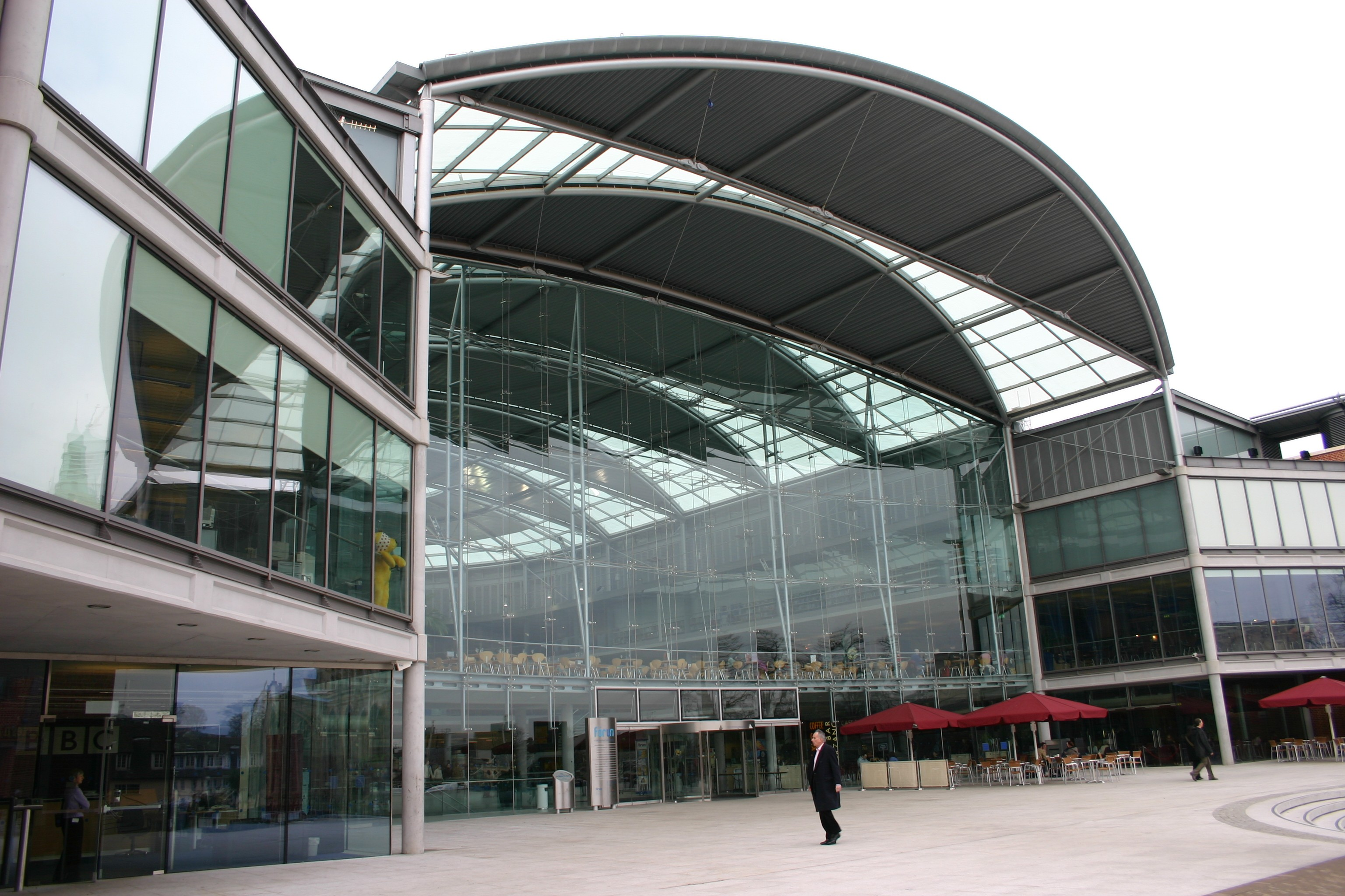 Millenium Library Norwich (England)